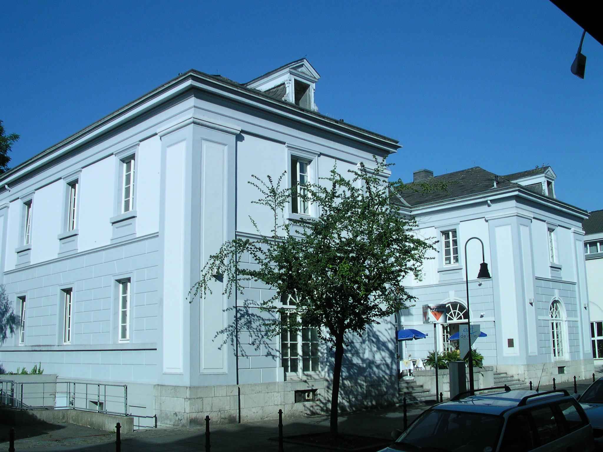 Eschweiler, old town hall